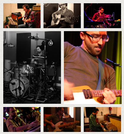 Photo collage of producer and musician Dustin Ransom